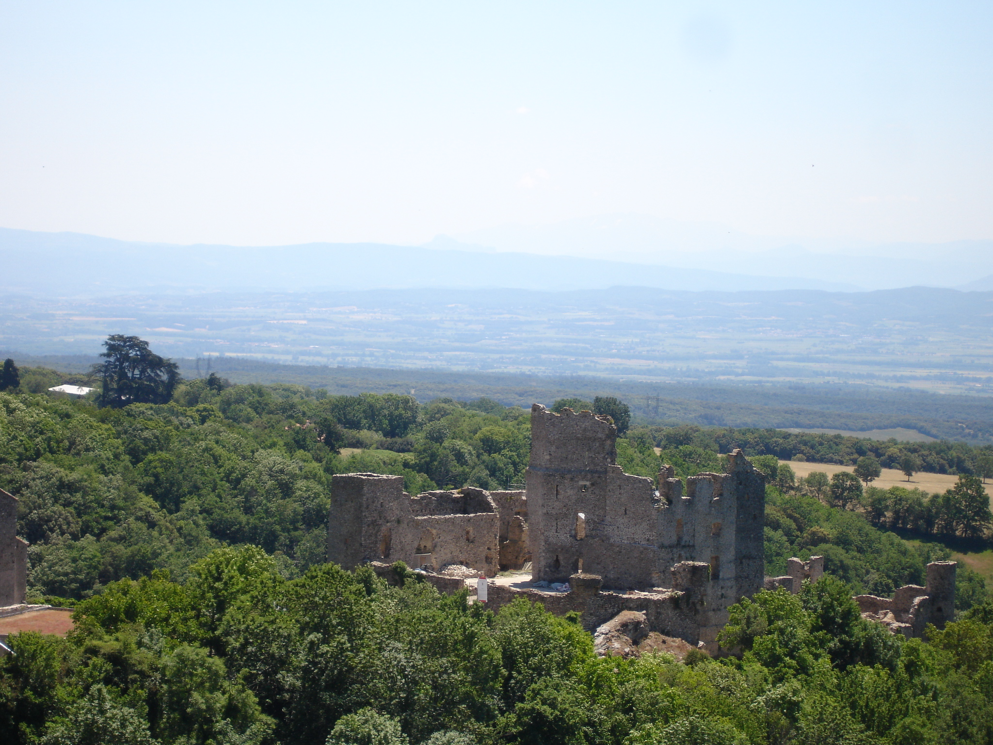 France, Aude, Saissac castle